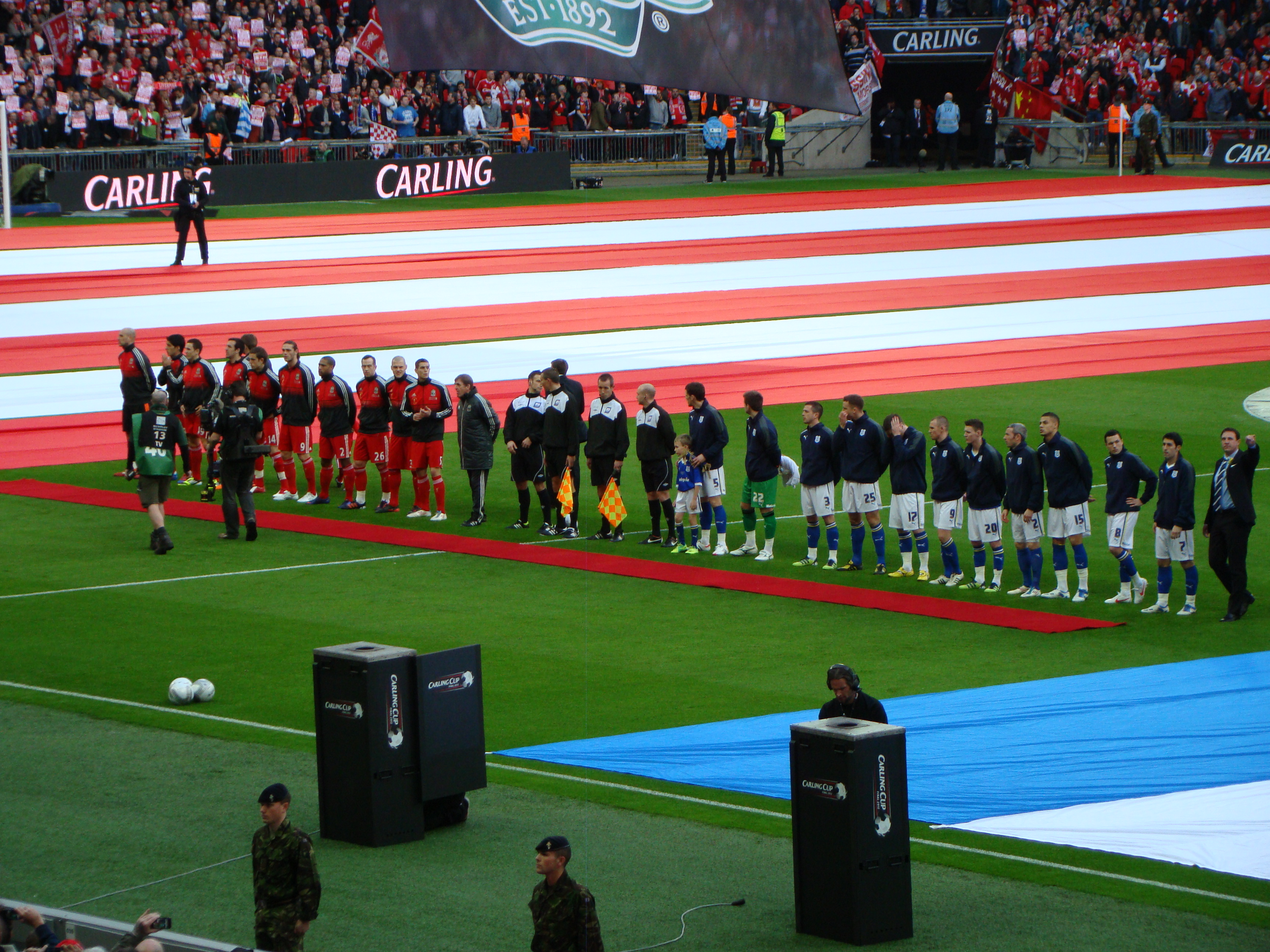 Cardiff V Liverpool, Carling Cup Final, Wembley, London